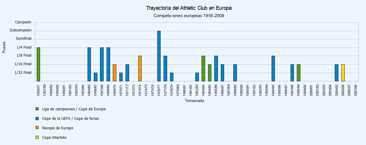 Historic trayectory in Europe competicions.